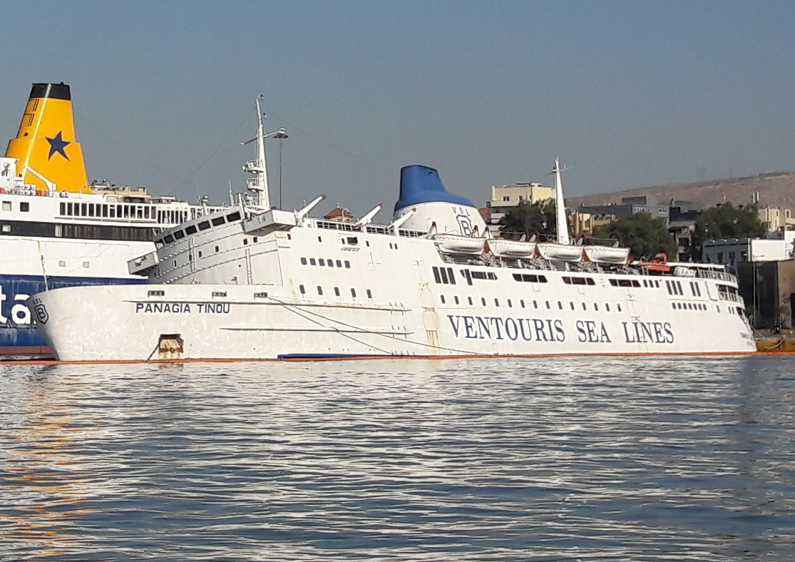 Wreck of the Panagia Tinou at Piraeus, August 2016